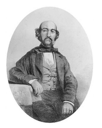 Portrait of Edward Fitzball by unknown engraver.